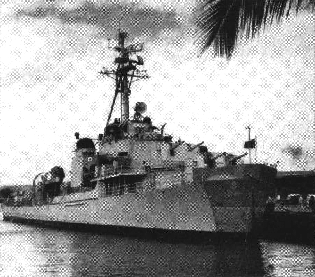 The U.S. Navy destroyer USS Mansfield (DD-728) after receiving a temporary bow. Mansfield, while searching for a downed U.S. Air Force Douglas B‑26 Invader on 30 September 1950, struck a mine which severed the bow below the main deck, 5 crewmembers were missing and 48 wounded. She received a stub bow at Subic Bay, Philippines, before she steamed to the Puget Sound Naval Shipyard, Washington (USA), for repairs.